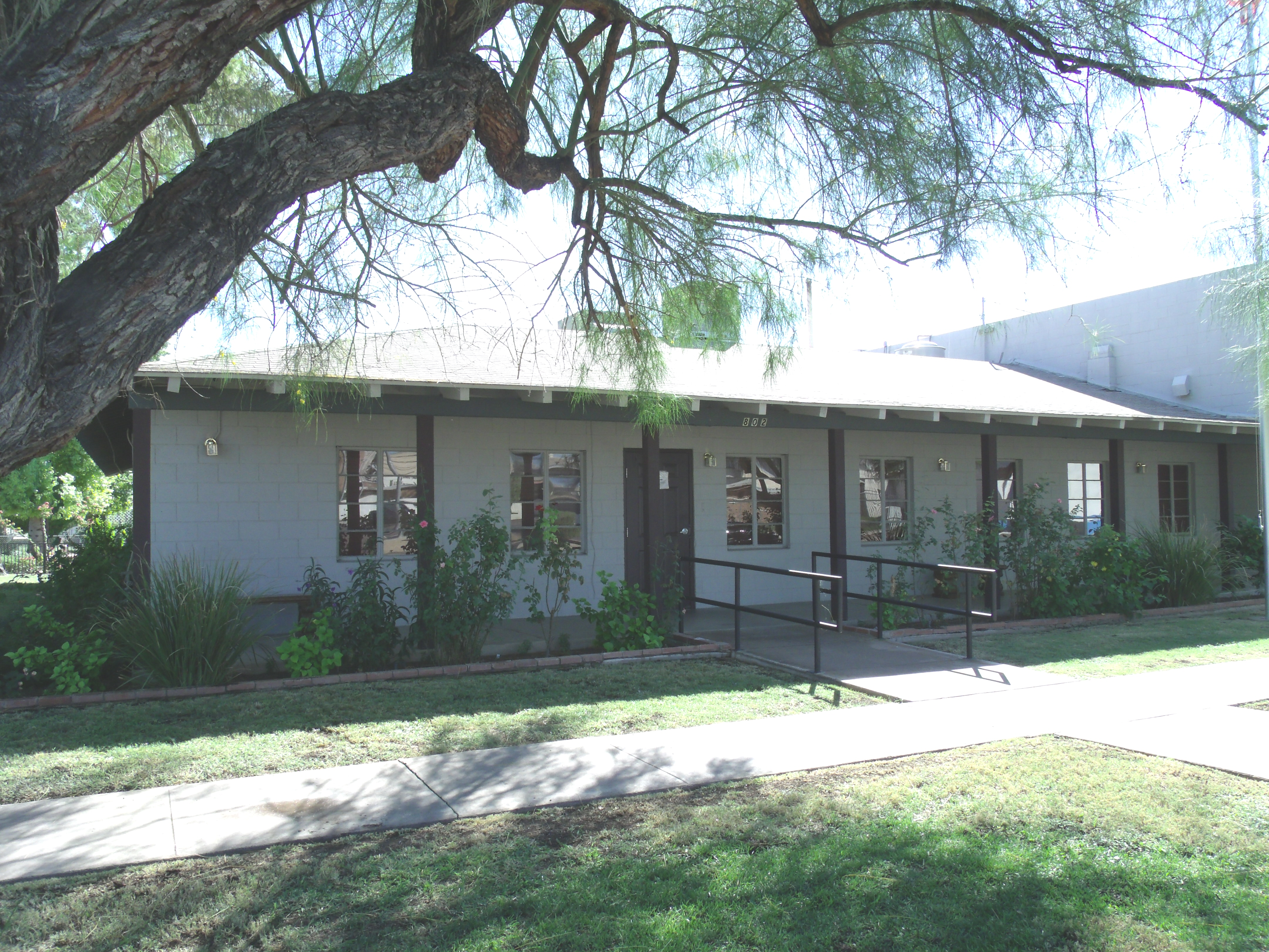 The historic Friendly House structure was built in 1900 and is located at 802 South 1st. Ave.. The Friendly House was established in 1922 by the Phoenix Americanization Committee presided by Placida Garcia Smith with the help of Mary Garcia to assist immigrants in transitioning their lives to Arizona. This property is recognized as historic by the Hispanic American Historic Property Survey.